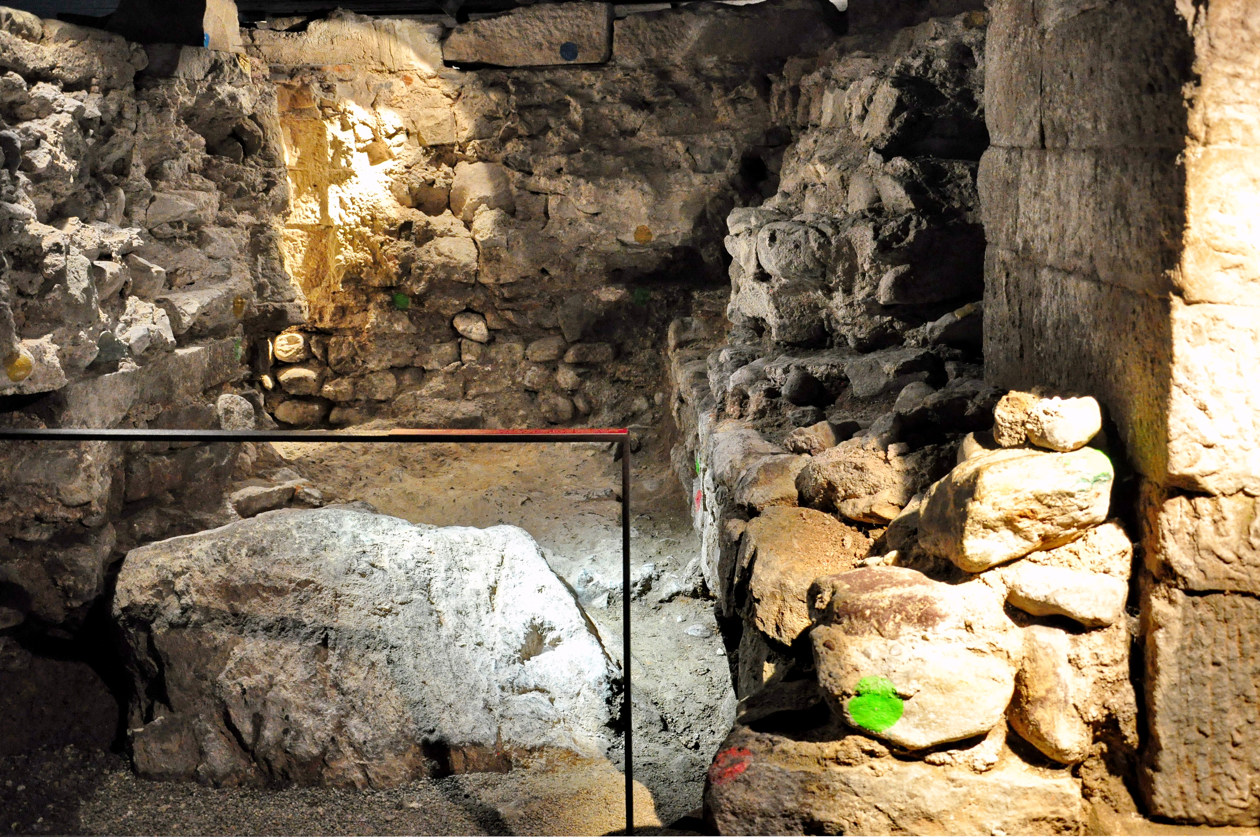 Wasserkirche Crypt in Zürich (Switzerland) : So called Martyr stone where the Saints Felix, Regula and Exuperantius were executed (so the legend tells).